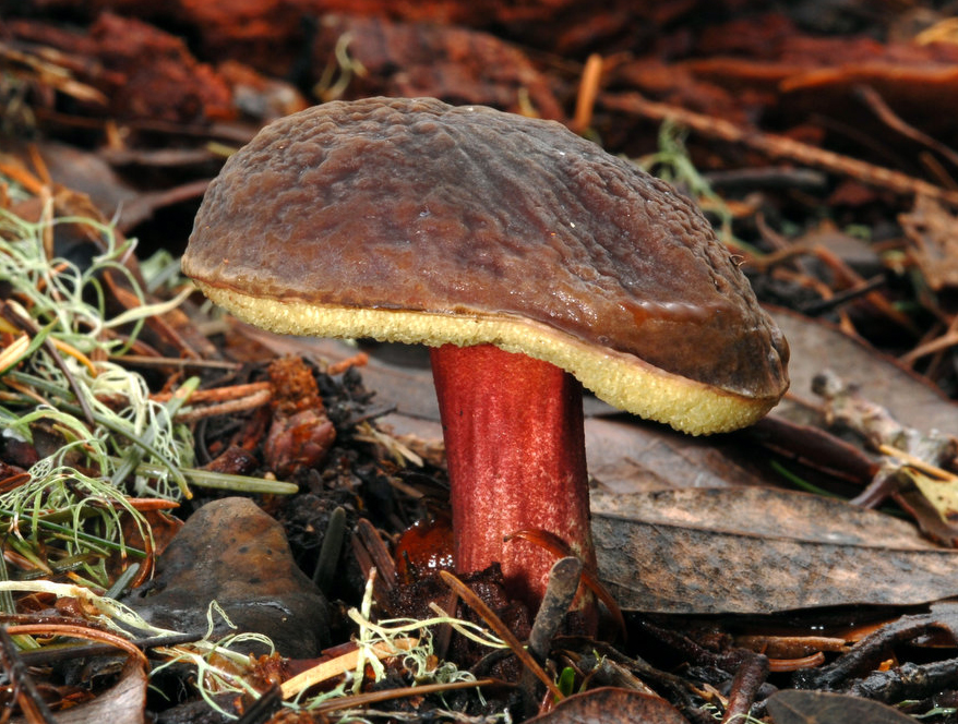 The mushroom Boletus zelleri Murrill. Photographed in Bear Valley, Marin Co., California, USA.